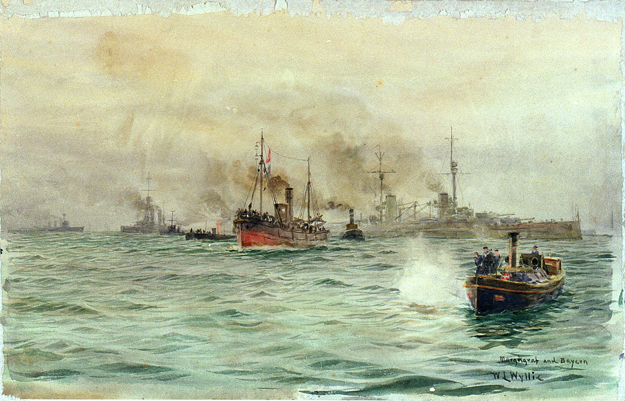 The German battleships 'Markgraf' and 'Bayern' in the Firth of Forth, November 1918 original art: drawing. Inscribed 'Markgraf and Bayern' and signed below by the artist, lower left. The German battleship 'Bayern' (1915) is on the left and the battleship 'Markgraf' (1913) on the right. A German 'Könisberg'-class light cruiser (1915-16) is on the extreme left. The gap between the funnels of the 'Markgraf' is a little too wide and the fore-funnel should be thicker than the after funnel. This image shows the ships anchored in the Forth between 22 and 25 November 1918, as part of the surrendered German High Seas Fleet, before they moved to Scapa Flow. A naval trawler is in the centre, with naval steam launches also shown. [BTodd/PvdM 5/13]